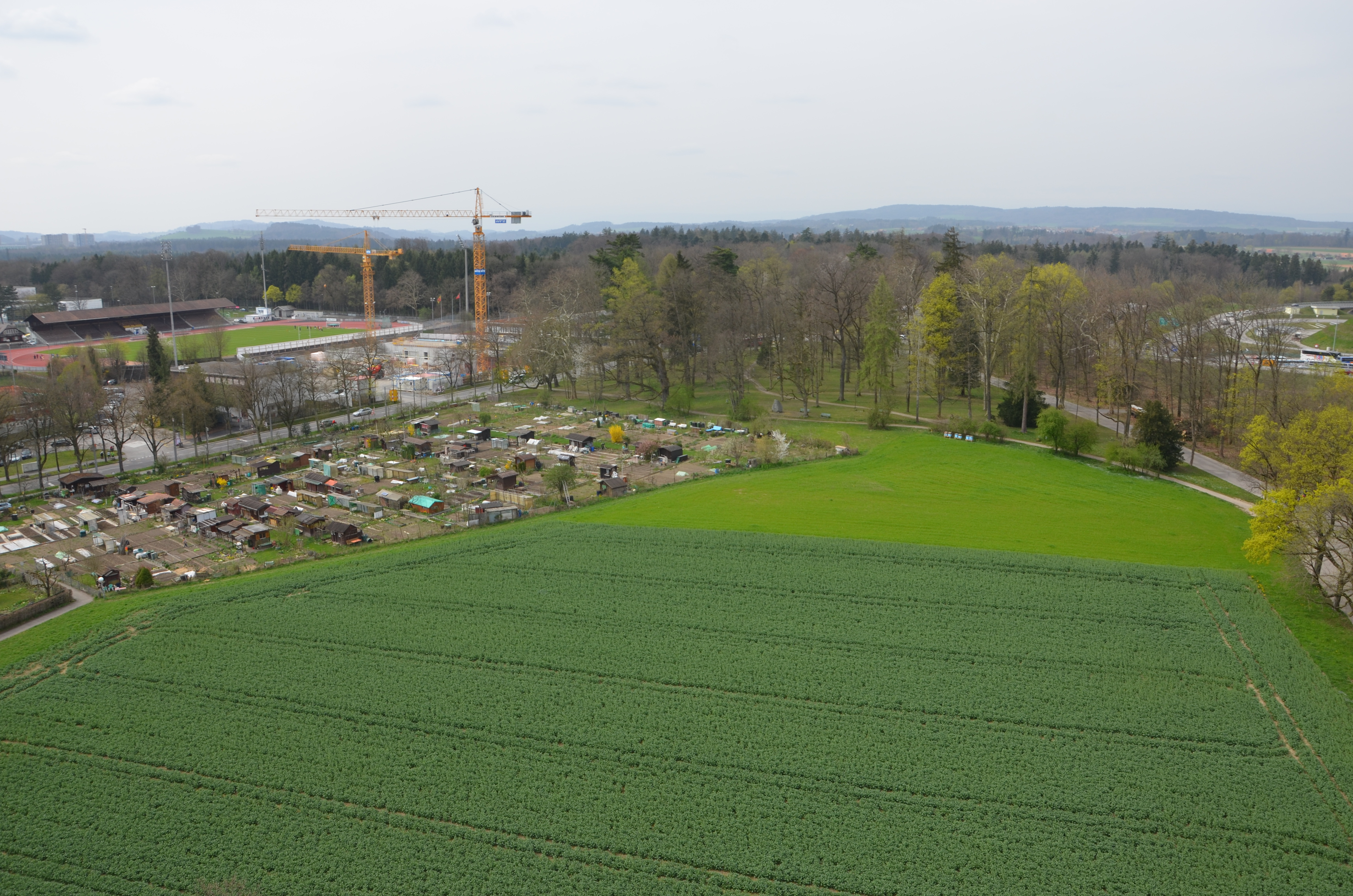 View of the Mittelfeld from the roof top of Burgerspittel.